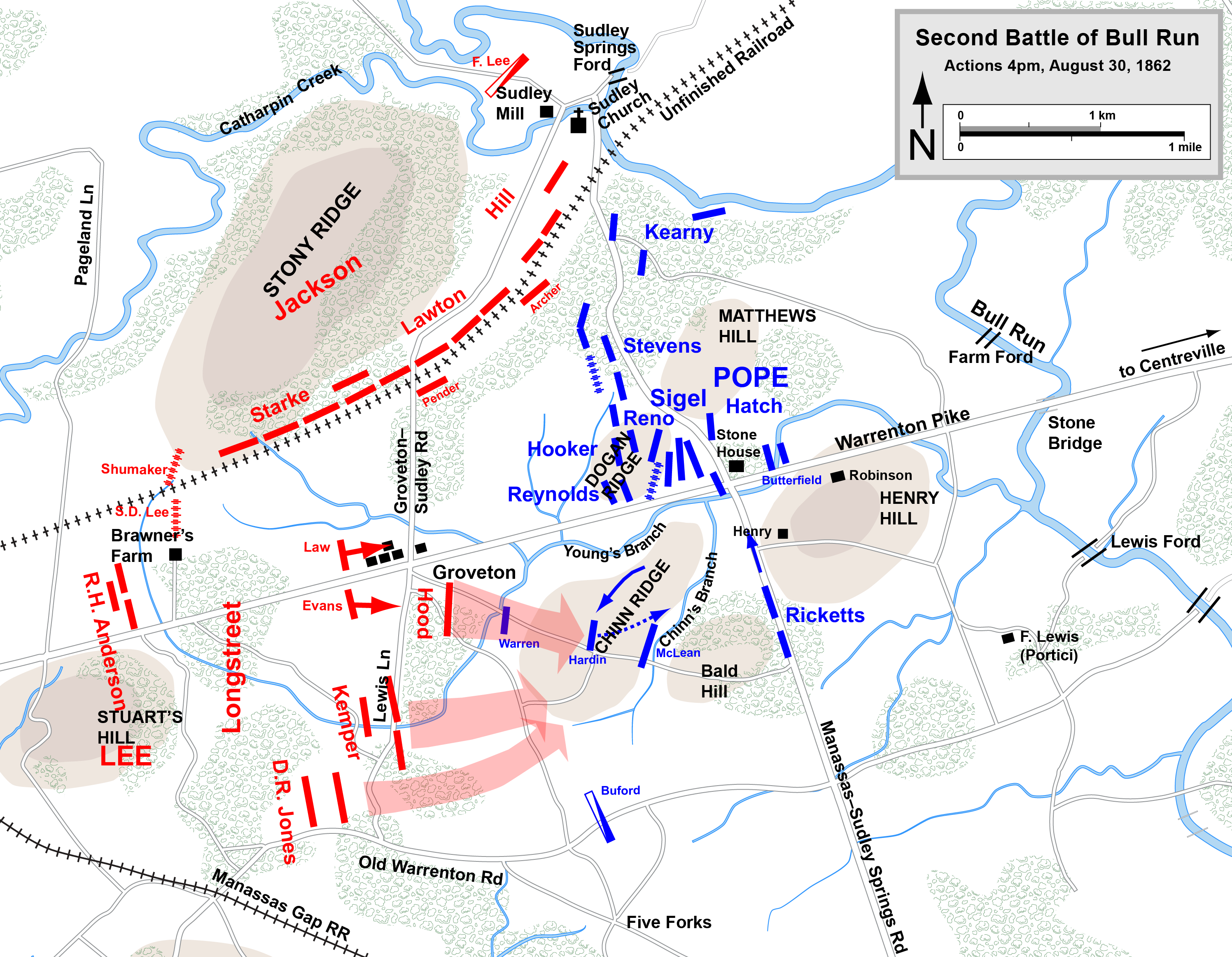 Map of the Second Battle of Bull Run of the American Civil War